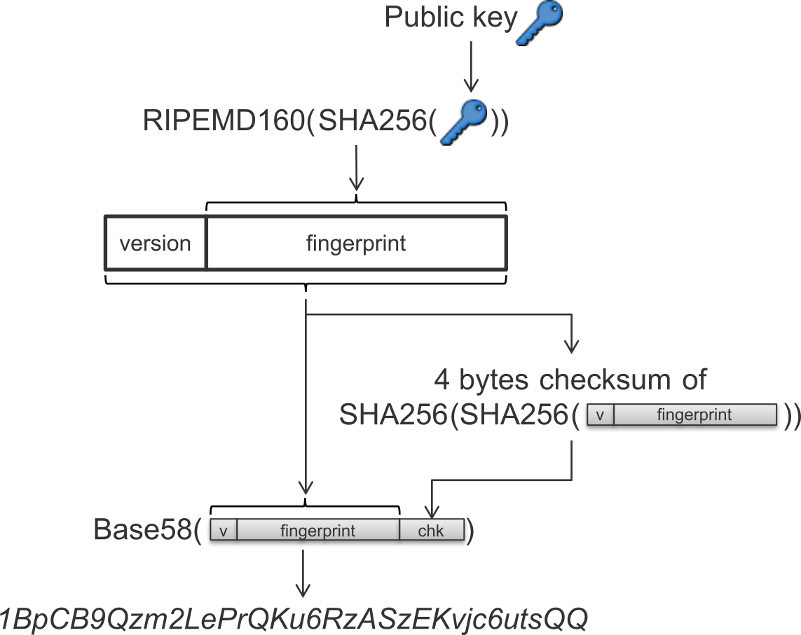 Graphic of how Bitcoin addresses are derived from a public key.